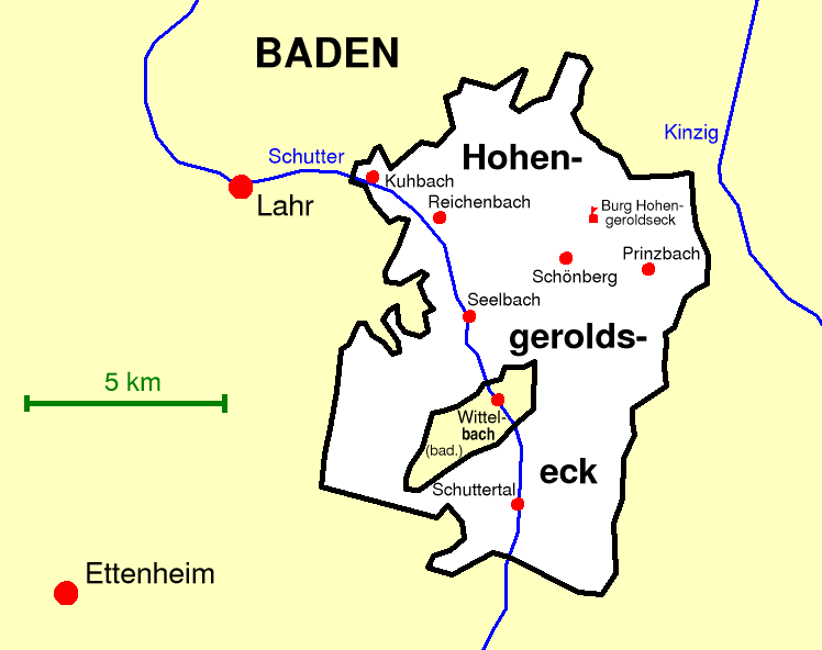 Map of the Principality of Hohengeroldseck (1806-1819)